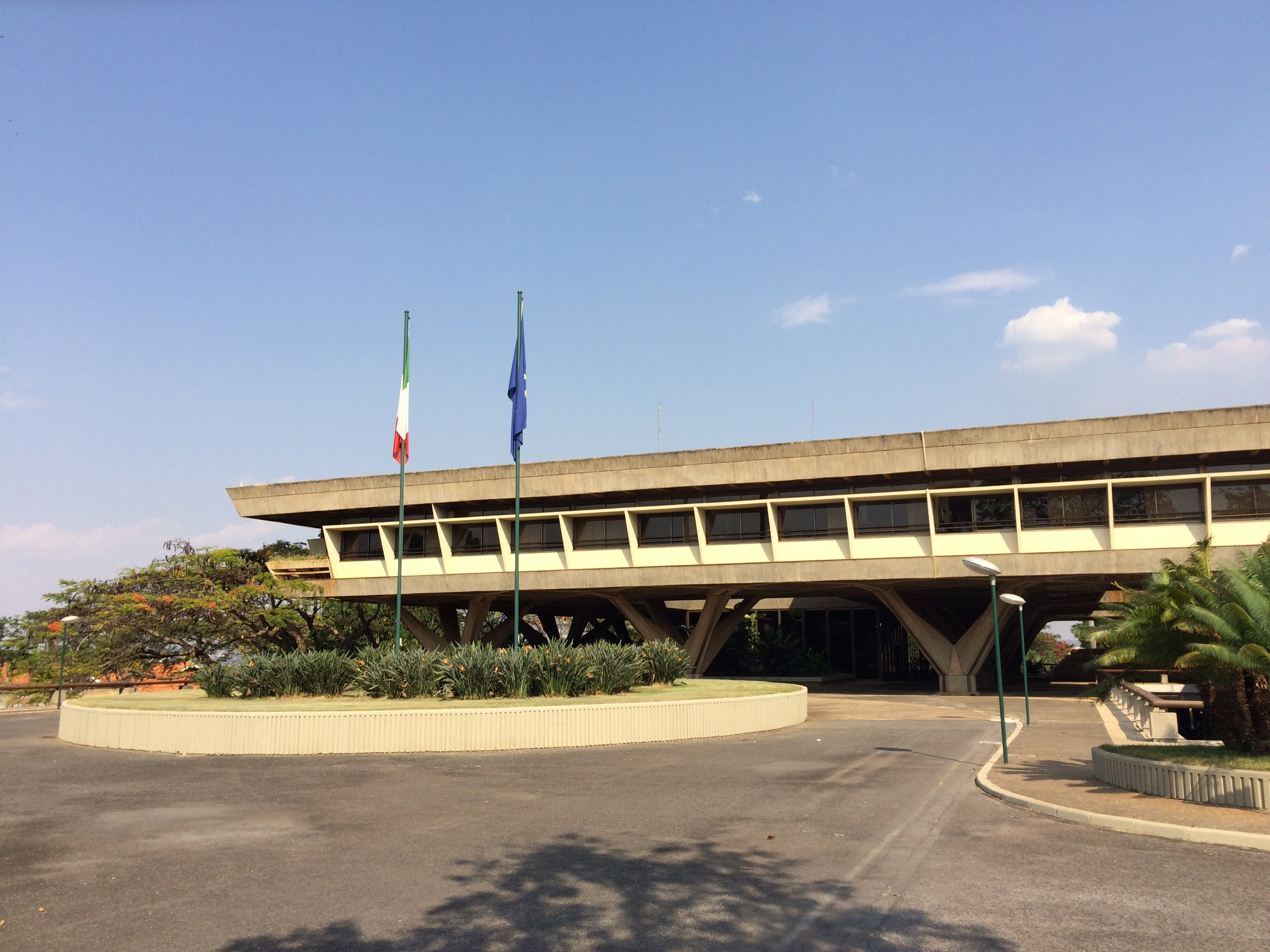 Embassy of Italy in Brasilia